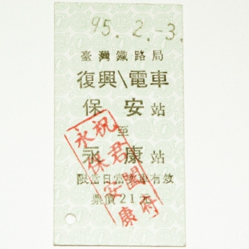 The ticket from Baoan station to Yongkang station in Tainan in Taiwan. 2006,02,03, Tainan wikipeidans New Year meetup.中文（台灣）: 臺灣鐵路管理局保安車站至永康車站車票，攝於2006年2月3日臺灣維基人臺南賀年聚會。